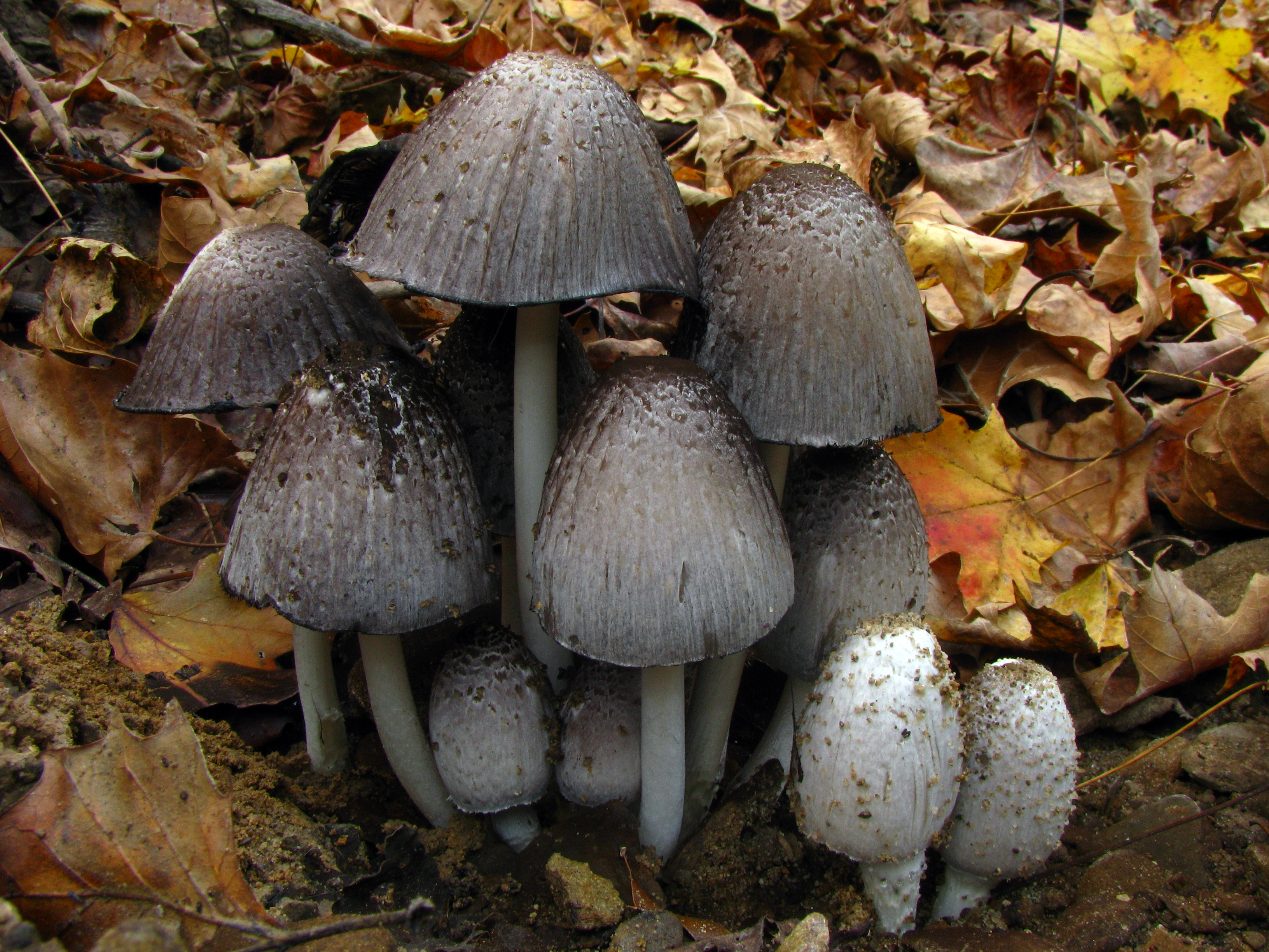 Coprinopsis atramentaria (Bul.) Redhead, Vilgalys & Moncalvo Location: Strouds Run State Park, Athens, Ohio, USA Observation Notes: These were growing in great numbers from the roots of a dead elm on the bank of a dry stream bed. For more information about this, see the observation page at Mushroom Observer.